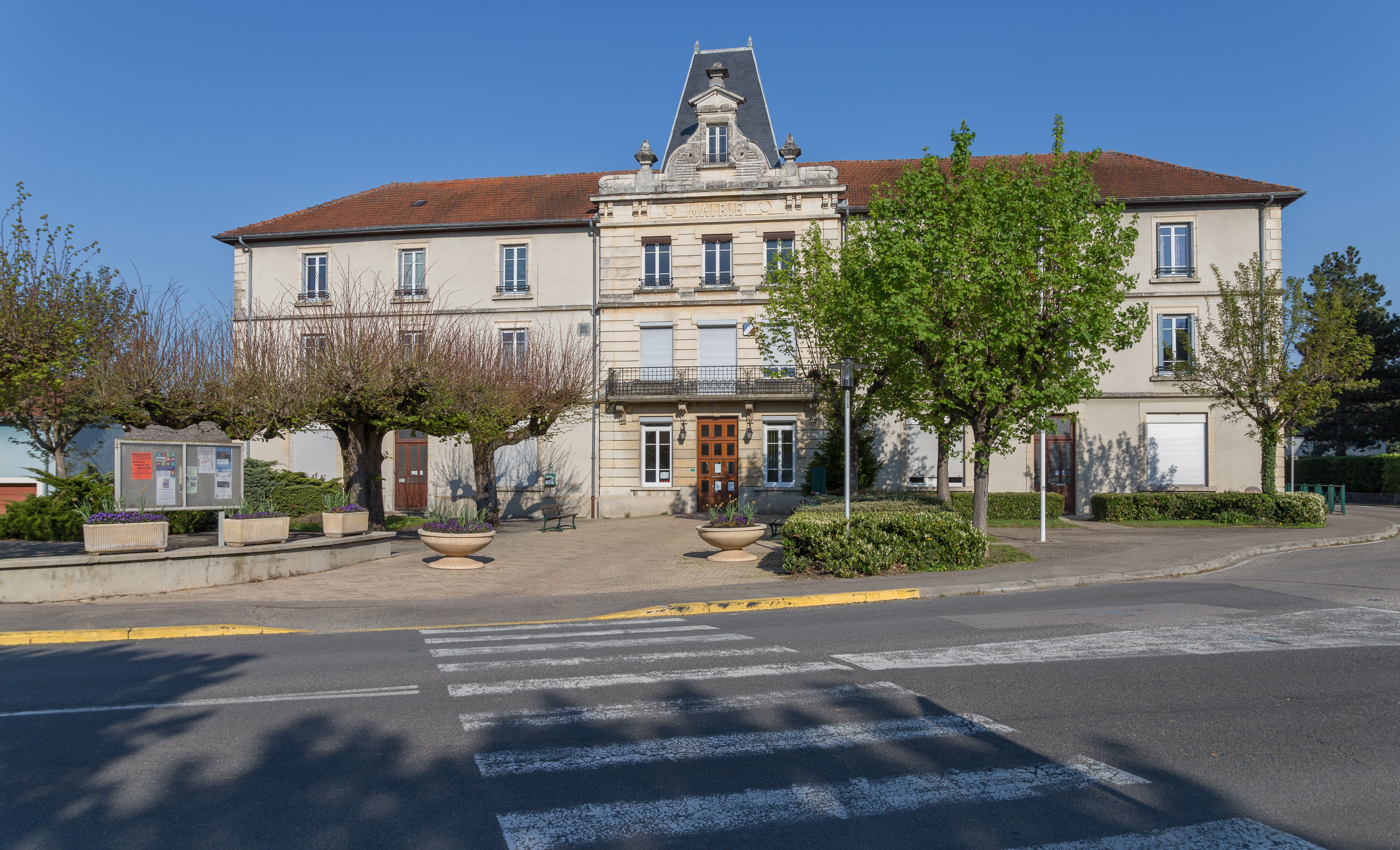 Mayor of Nivolas-Vermelle, Isère.